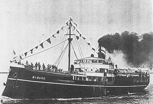 Dai-Ni Kimigayo Maru Ship